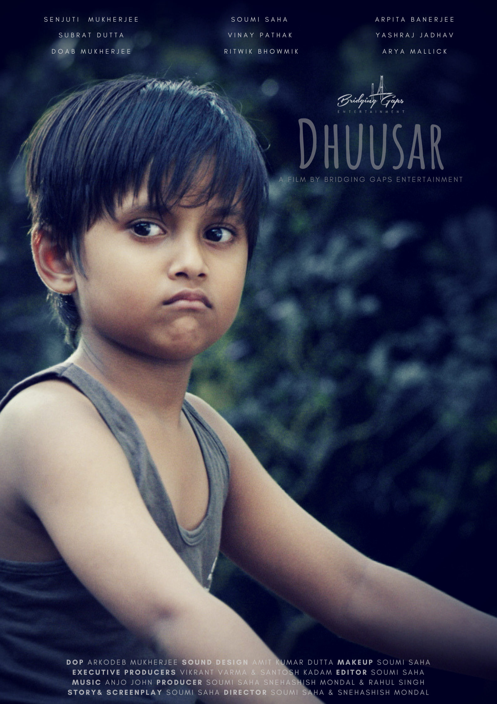 Image represents Kid Shiladitya Guha from film Dhuusar